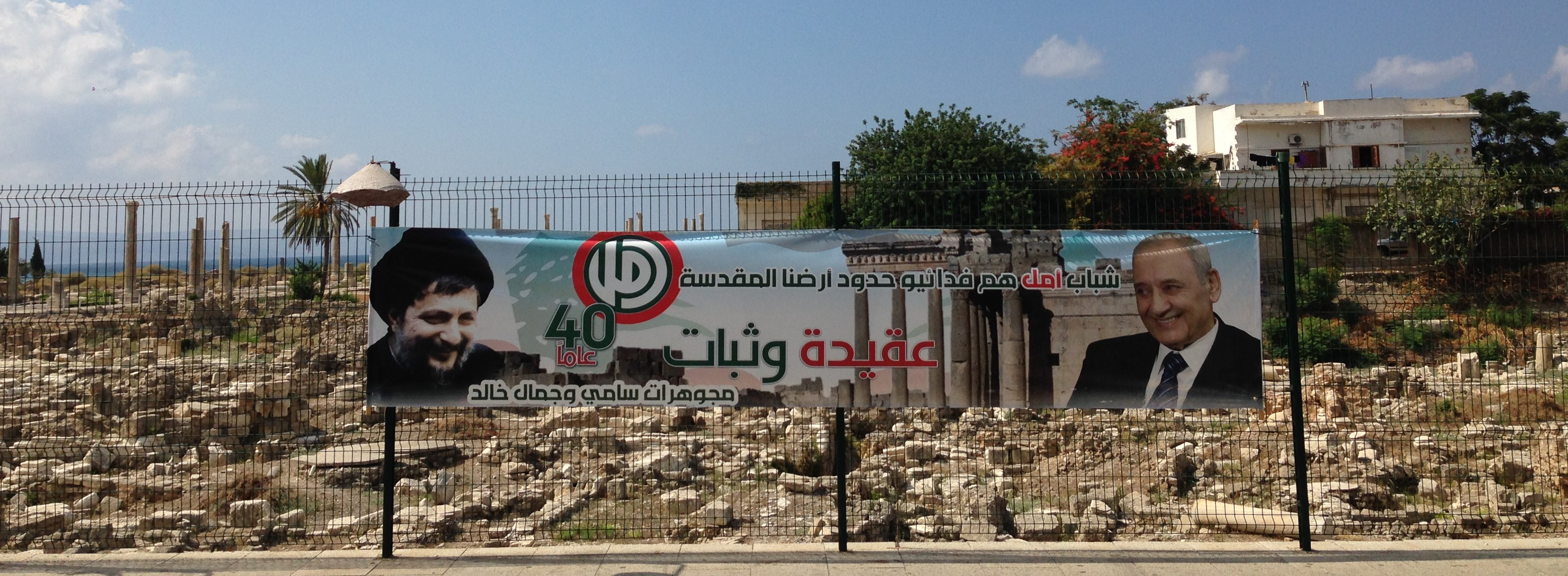 A banner on the fence of the UNESCO World Heritage site of Roman ruins in the Lebanese city of Tyre (Sour), commemorating the 40th anniversary of the disappearance of Shia leader Musa al-Sadr (left), also depicting Nabih Berri (right), leader of the Amal movement.